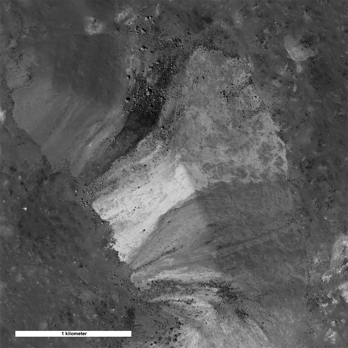 Aristarchus crater - Close-up of central peak from LROC's NAC M122523410